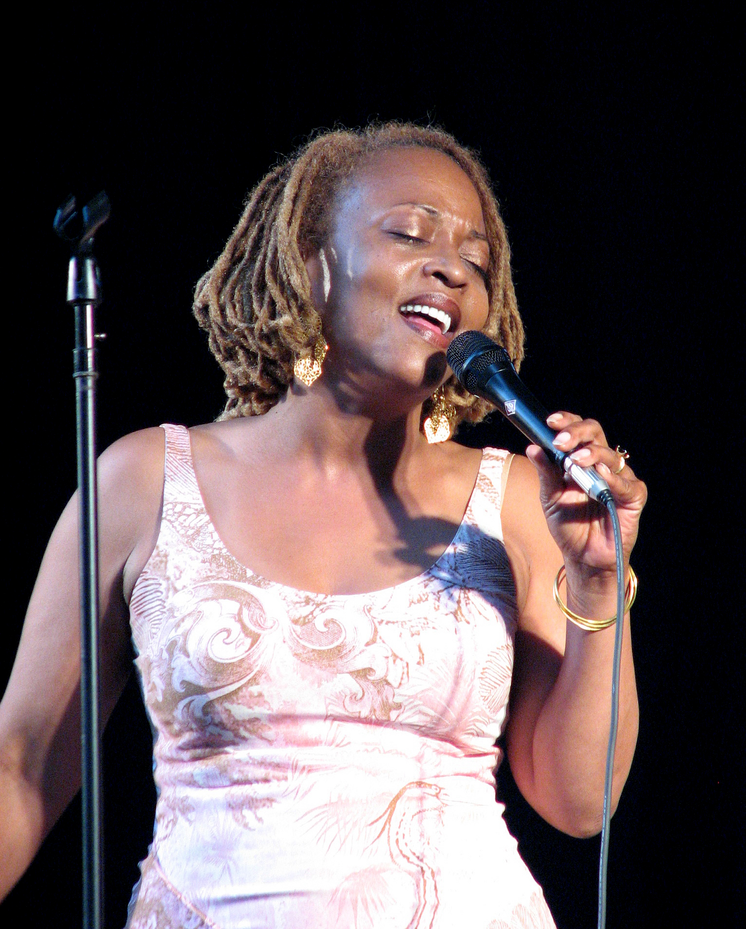 Jazz vocalist Cassandra Wilson performing at the "Charlie Parker Jazz Festival" in Tompkins Square Park, New York City on Sunday, August 26, 2007.